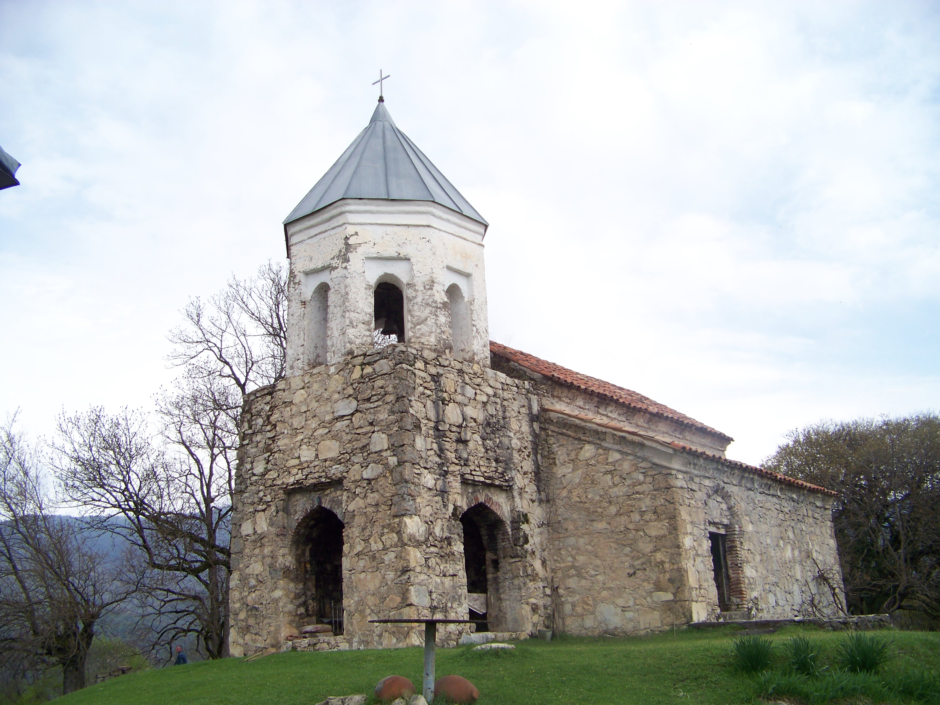 Tskarostavi church